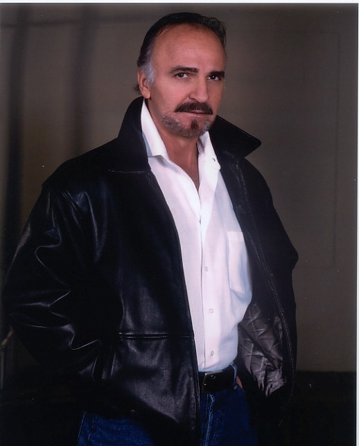 Paul Barresi. Submitted by Paul Barresi (paulbarresi at a o l dot com) for inclusion in the article. He was informed, "If you do own the rights and want us to put it up, we can only do so if you license it under a GNU Free Documentation License, so it can be distributed without copyright infringement." His reply on 4 May 2006 9:45 pm Pacific: "I own the rights. You have my permission to use it. Thanks."